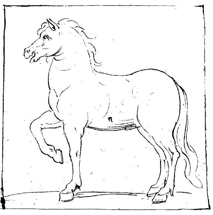 Horse desease drawing from Trattato dell'imbrigliare, arreggiare & ferrare cavalli, an ancient horsemanship Italian book.